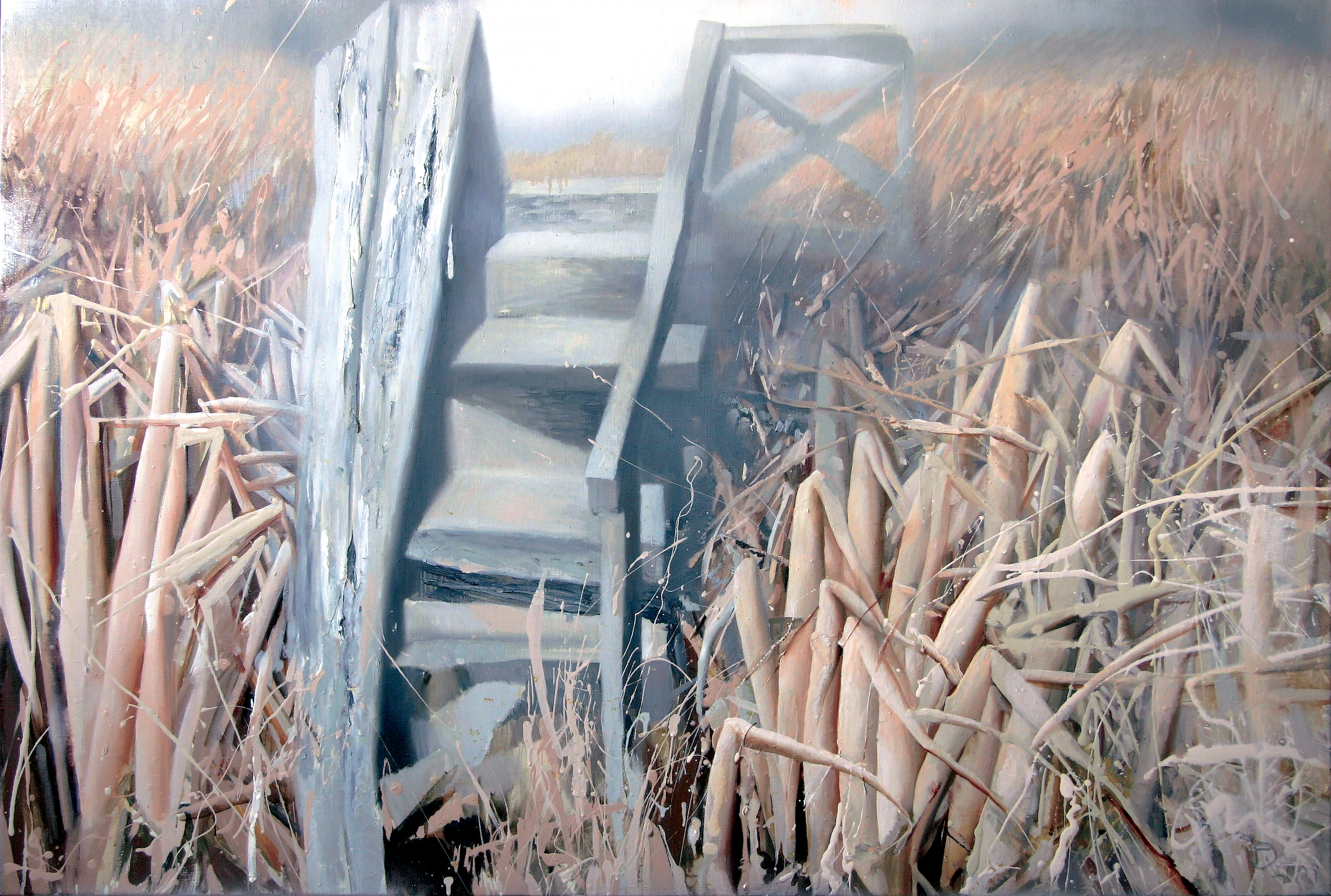 Stairs